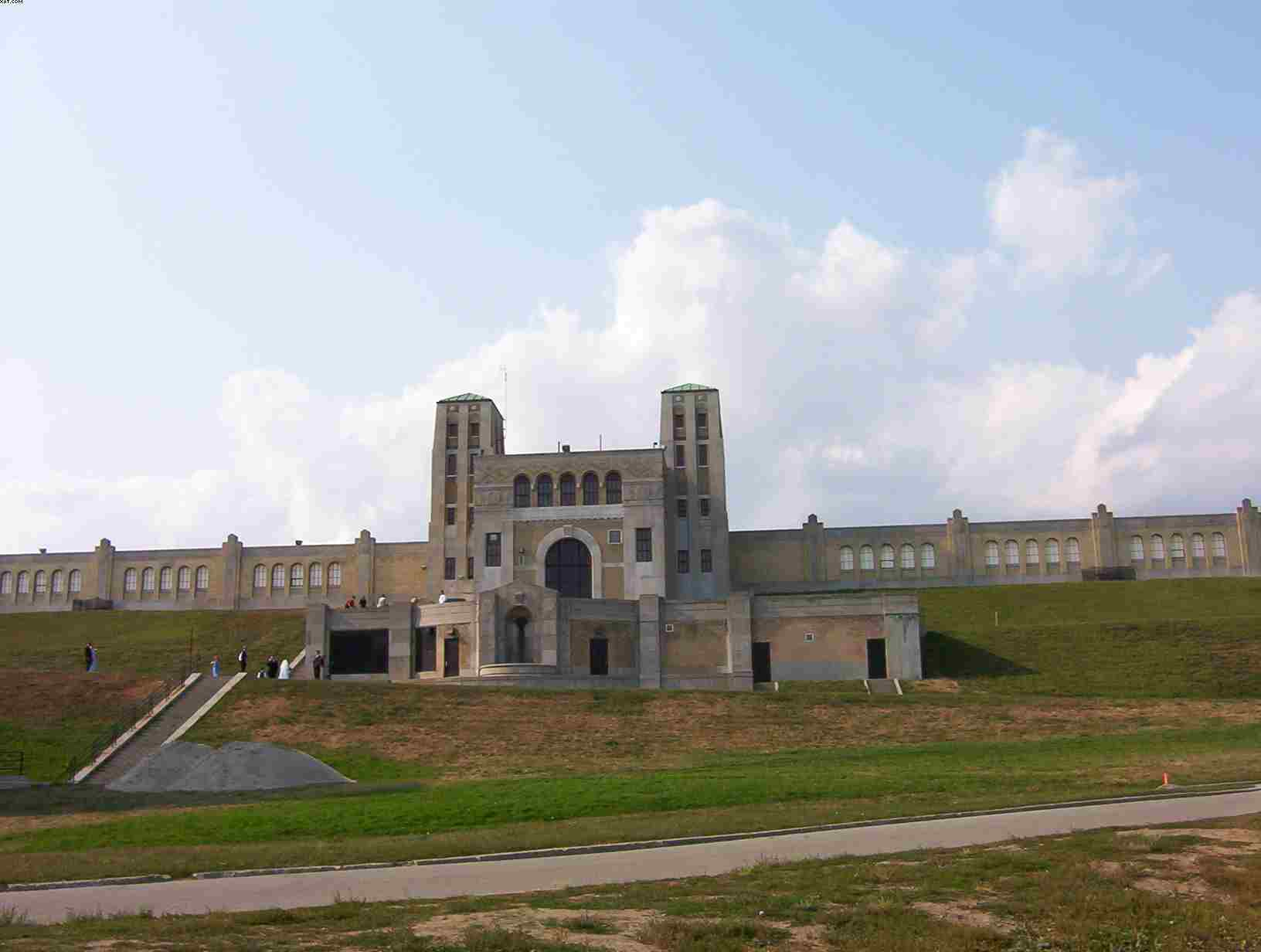 R. C. Harris Water Treatment Plant in Toronto, 2003